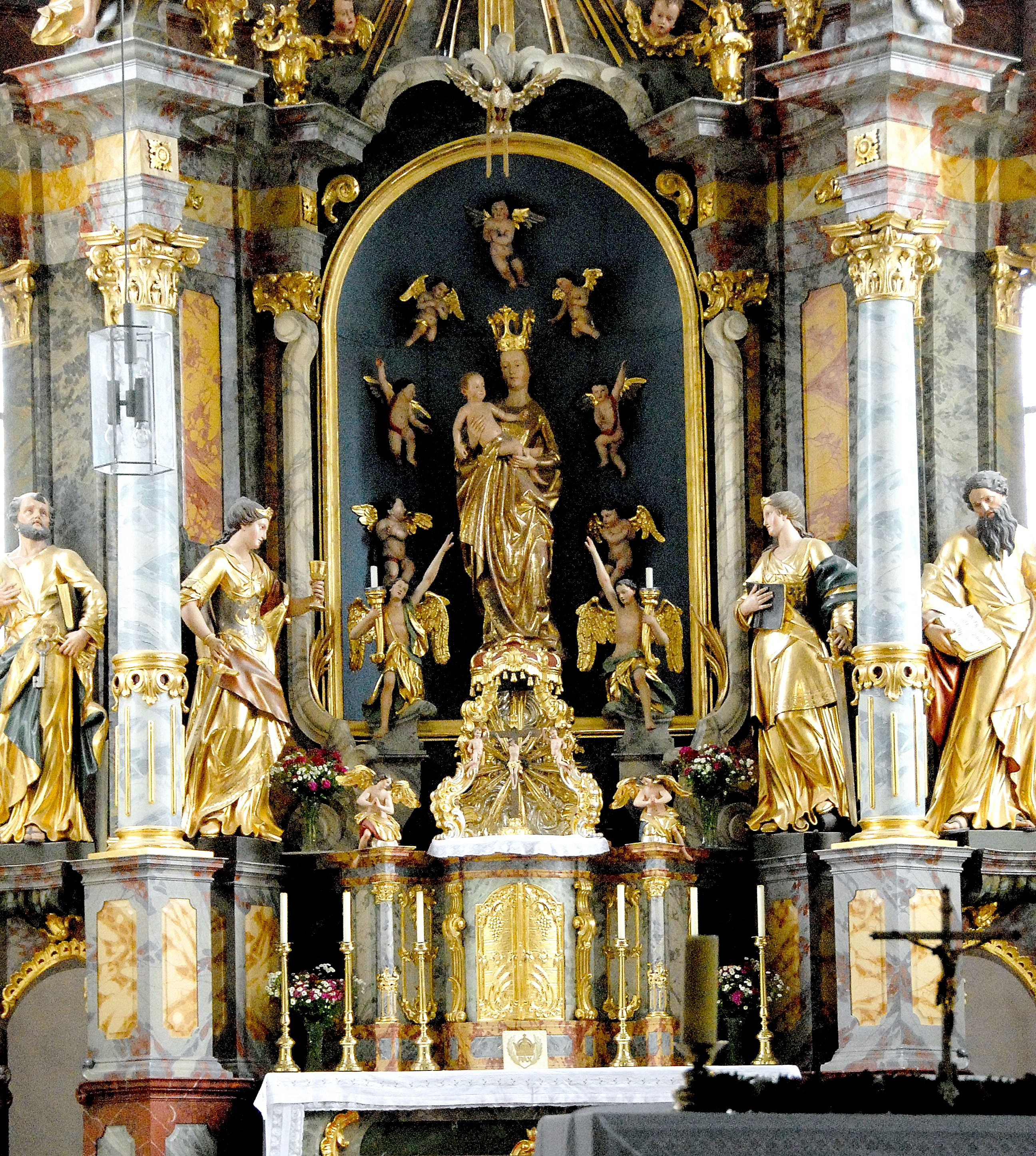 Baroque high altar in the parish and former collegiate church the Assumption, market town Eberndorf, district Völkermarkt, Carinthia, Austria, European Union